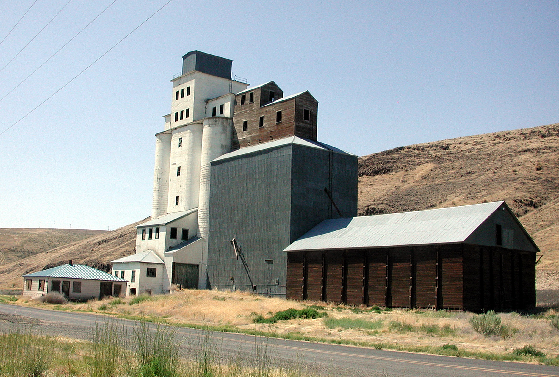 Grain elevator along Oregon Route 74 in Ione, Oregon